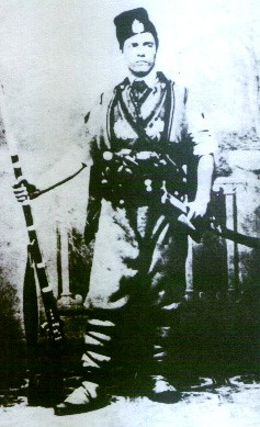 Vassil Levski (1837-1873), Bulgarian freedom fighter. Vassil Levski as the Color Bearer of a Revolutionary Brigade